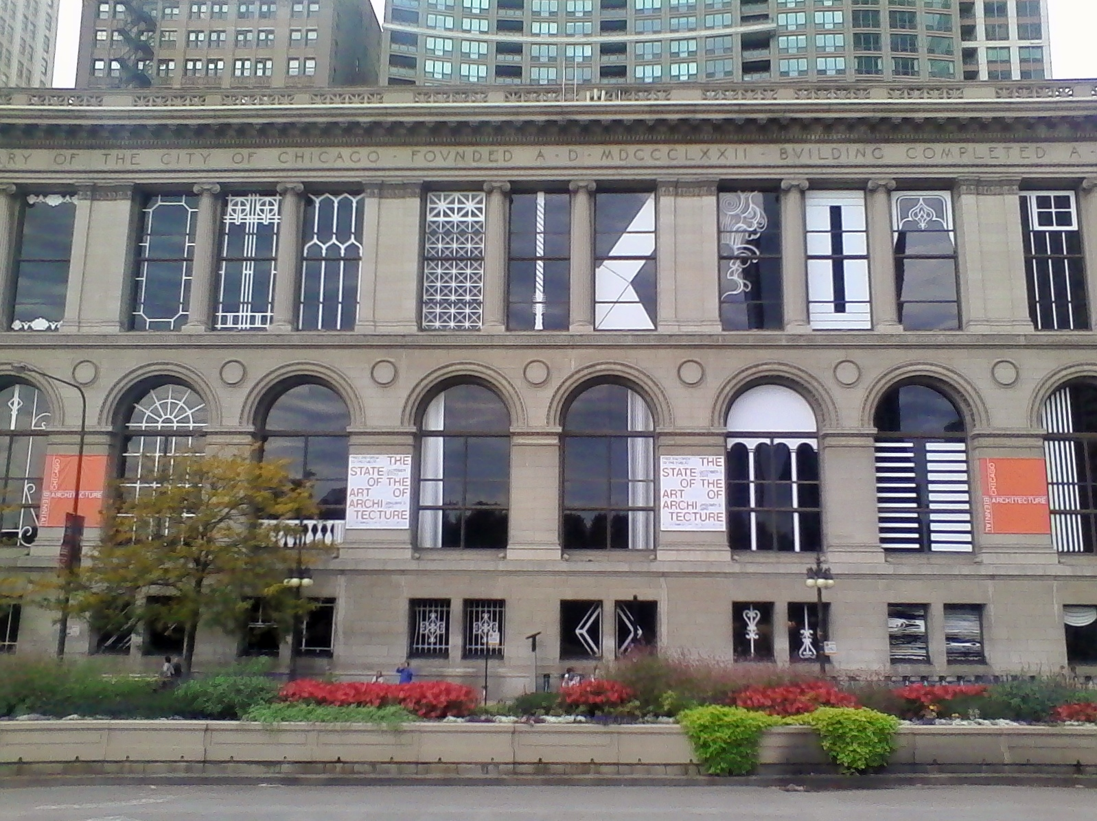 Chicago Cultural Center during the 2015 Chicago Architecture Biennial. Facade features Norman Kelley's installation "Chicago, How Do You See?"